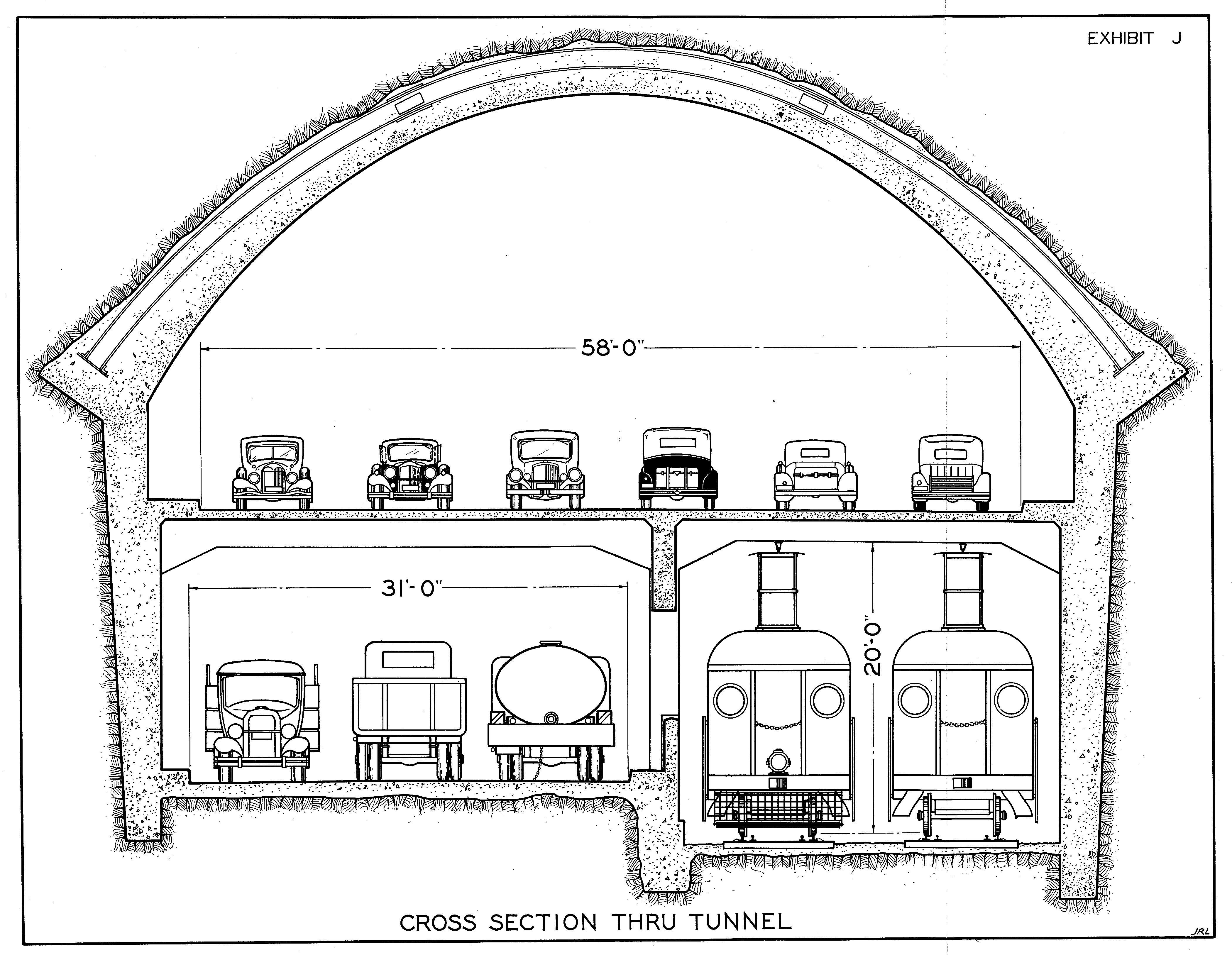 From Report on Interurban Electric Railway for the San Francisco-Oakland Bay Bridge, November, 1933. I love this picture.